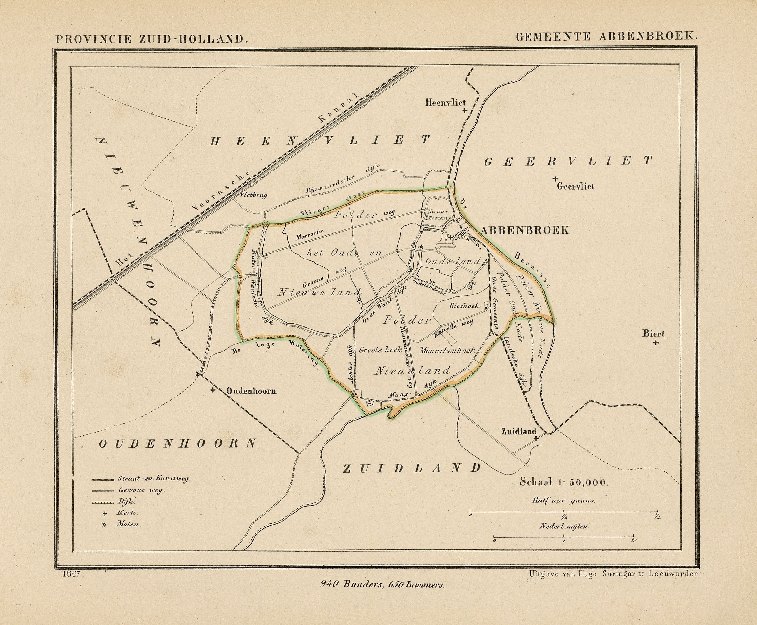 Map from 1867 of the former municipality of Abbenbroek (province South Holland, Netherlands). On January 1st, 1980 the municipalities of Abbenbroek, Geervliet, Heenvliet, Oudenhoorn and Zuidland melted together to form the new municipality Bernisse. Abbenbroek lies about 18 km southwest of Rotterdam.